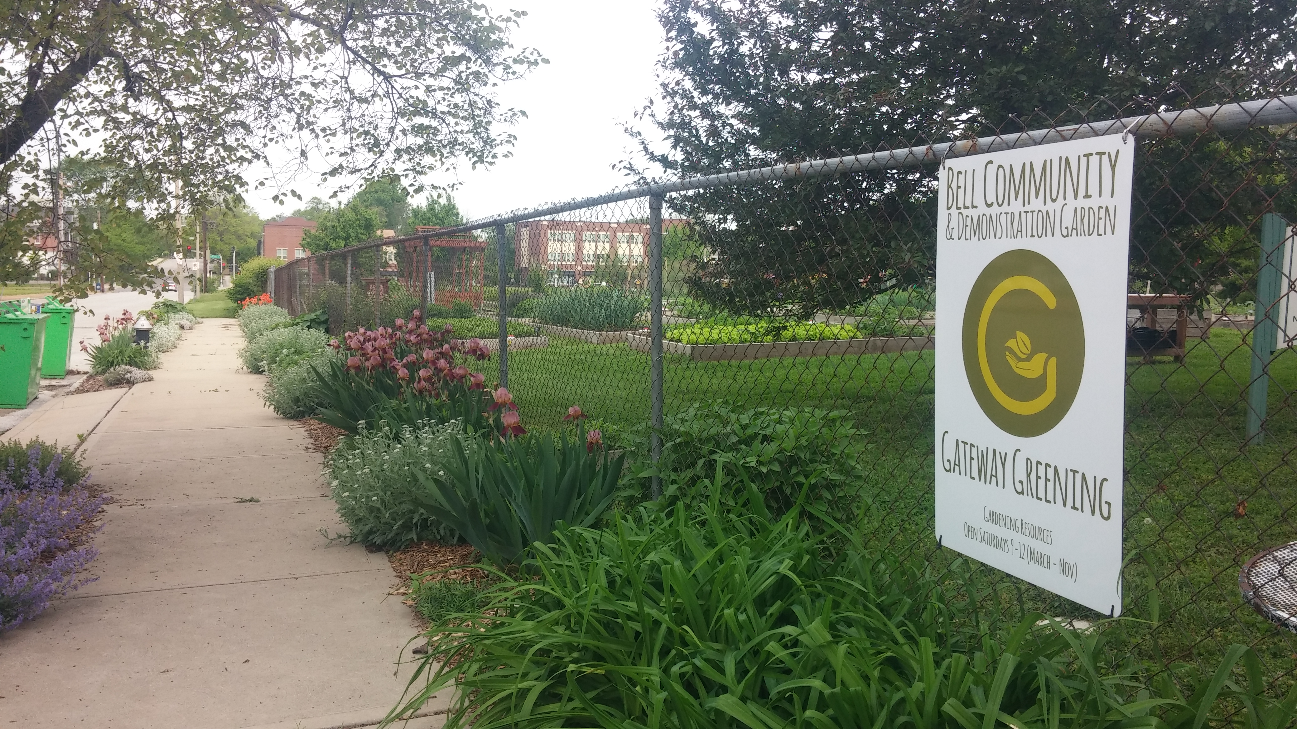 Bell Community & Demonstration Garden in St. Louis, Missouri, May 2016